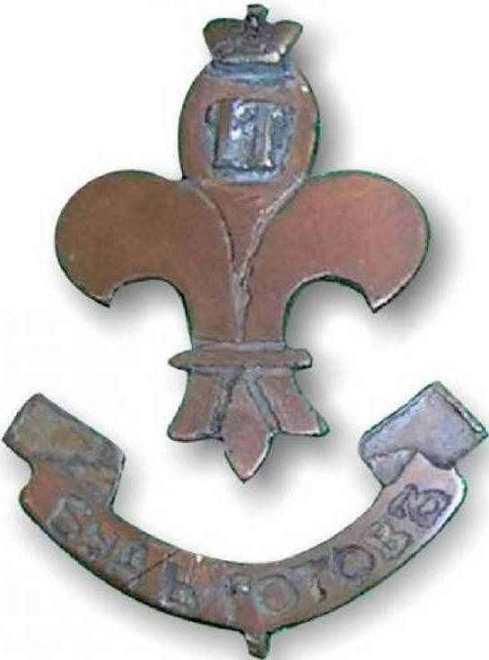 Imperial Russia boy scout badge, circa 1915